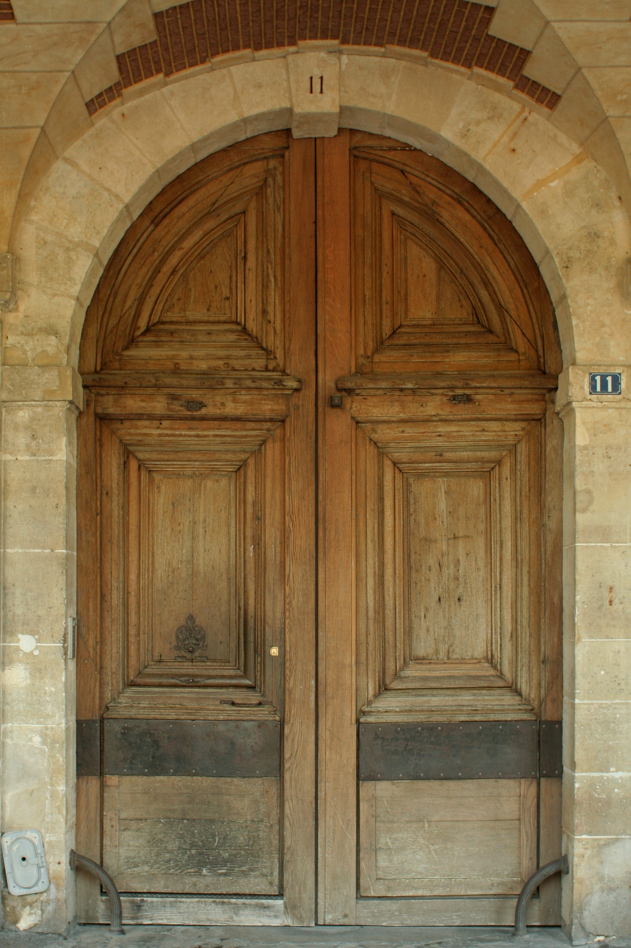 Door of 11 Place des Vosges, Paris.